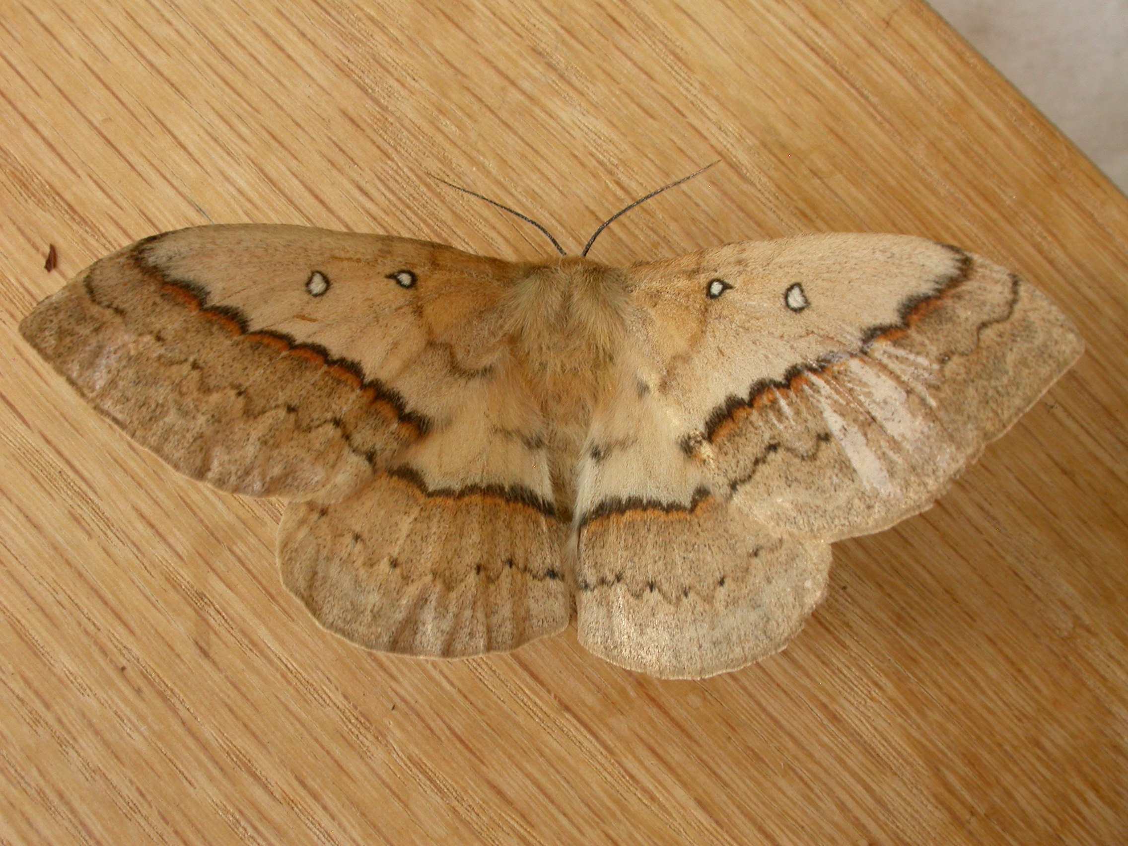 Anthela nicothoe (Boisduval, 1832), female, to MV light, Blackheath, NSW, 15/16 January 2009